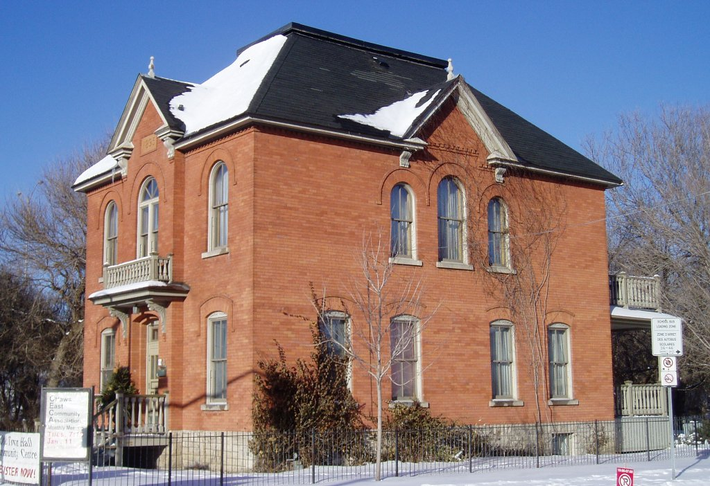 Ottawa East townhall in January 2005